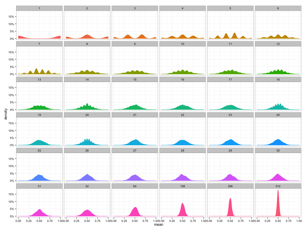 This chart shows the mean of binomial distributions of different sample sizes simulations to show as it increases the sample, it converges toward the real mean.